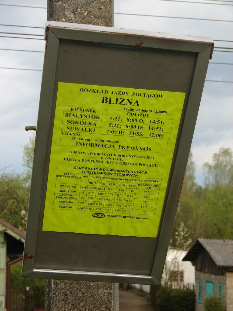 PKP Blizna train stop timetable (in Poland)